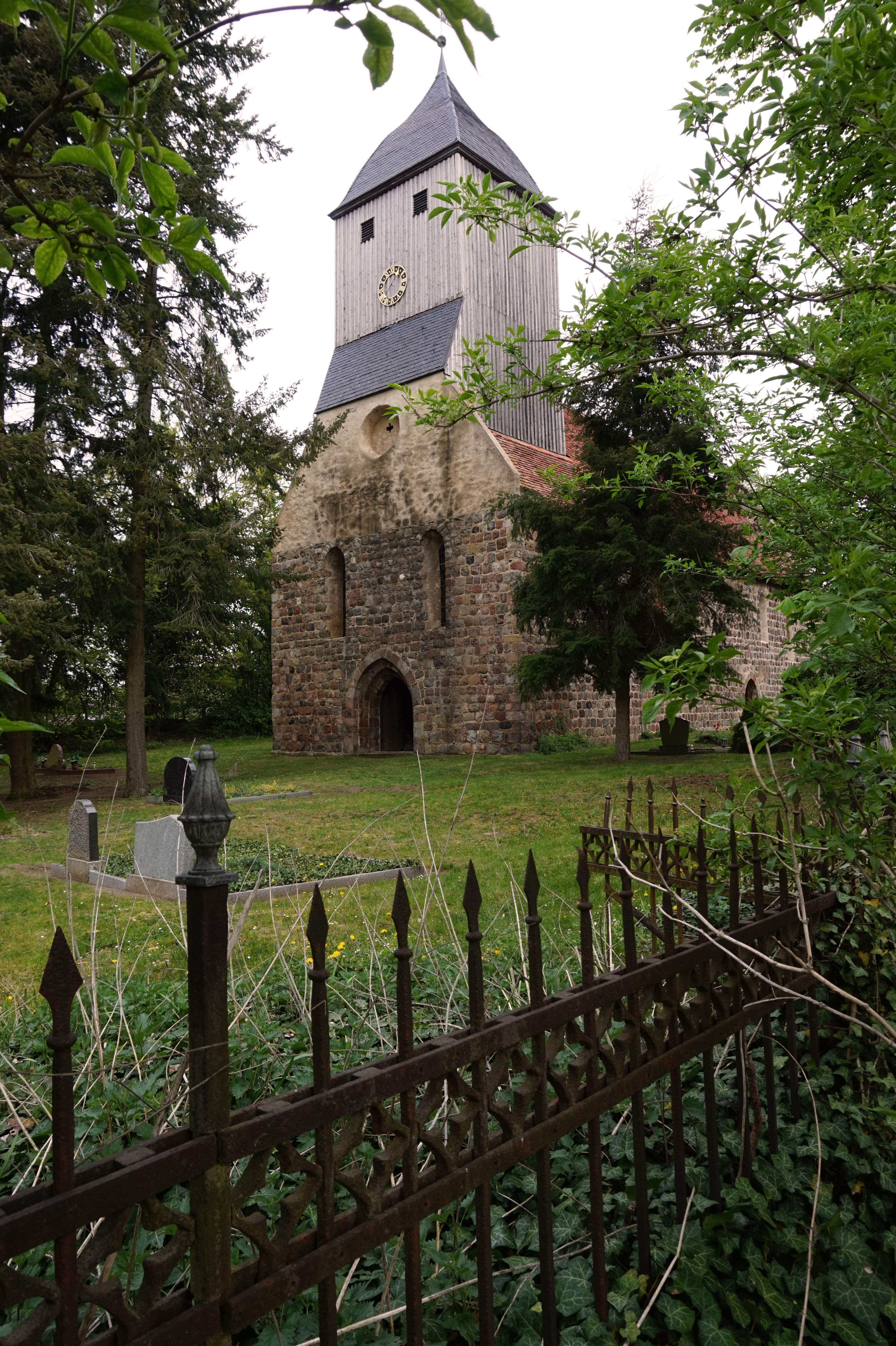 Church Sternhagen Northwestuckermark